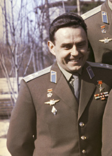 “Soviet cosmonauts”. Soviet cosmonauts (front row, from left): Vladimir Komarov, Yuri Gagarin, Valentina Tereshkova, Andrian Nikolayev, Konstantin Feoktistov, Pavel Belyaev, second row: Alexei Leonov, German Titov, Valery Bykovsky, Boris Yegorov, and Pavel Popovich. Star City.